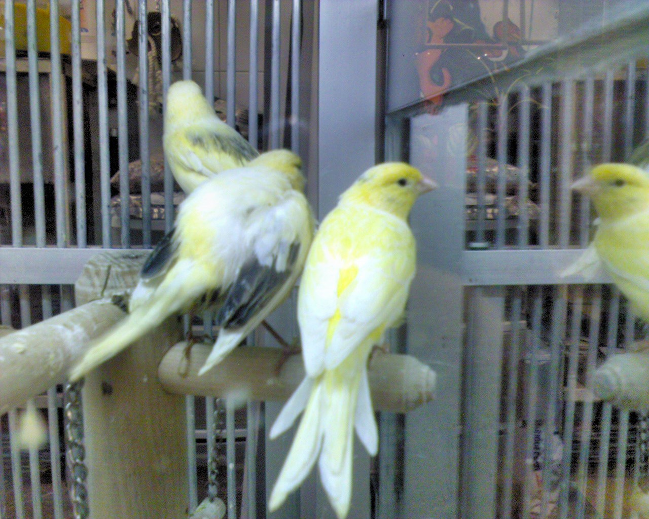 Many Serinus canaria in a pet shop